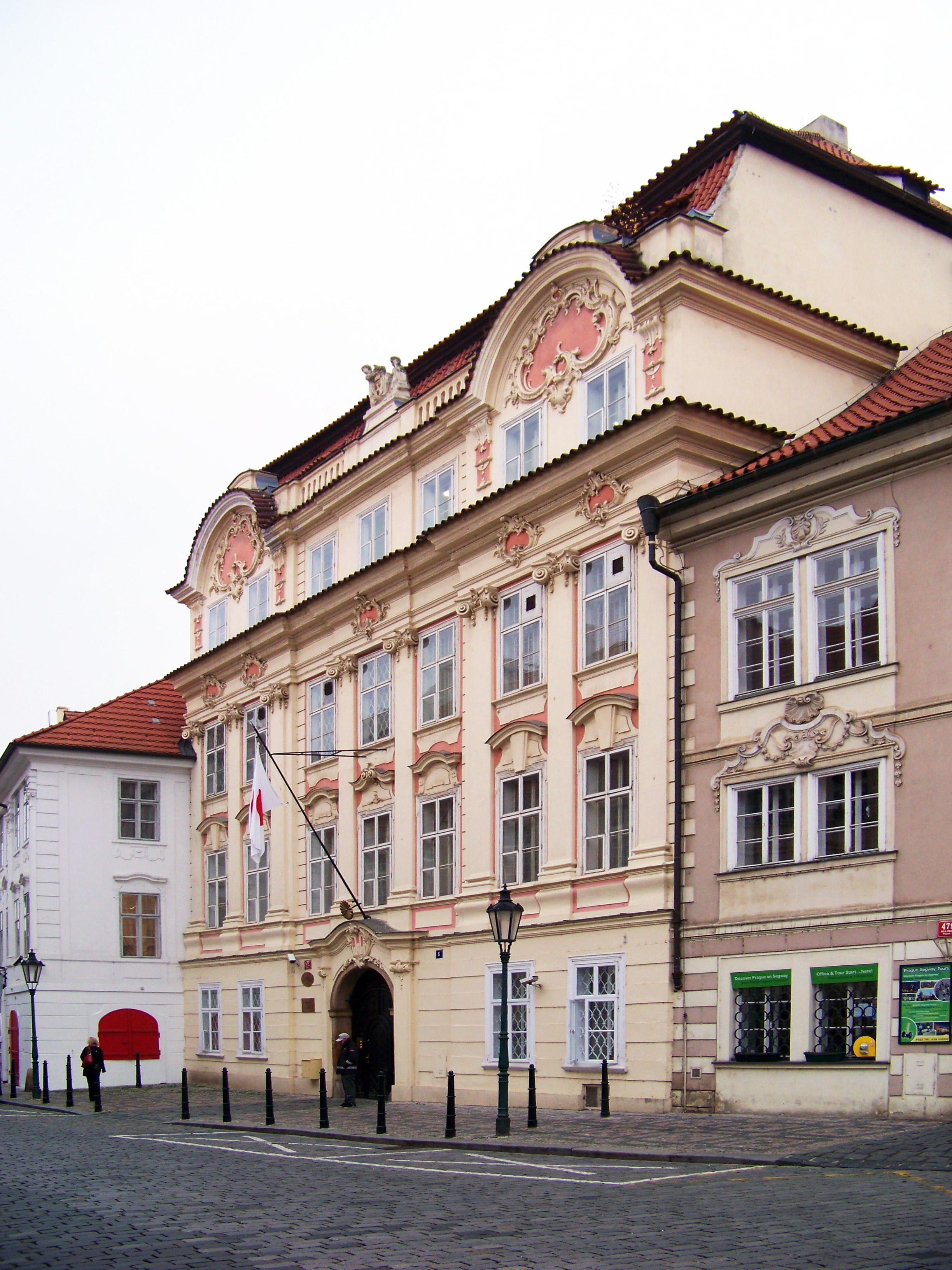 Prague-Malá Strana, the Czech Republic. Maltézské Square 477/6, Turba Palace, Japan Embassy.